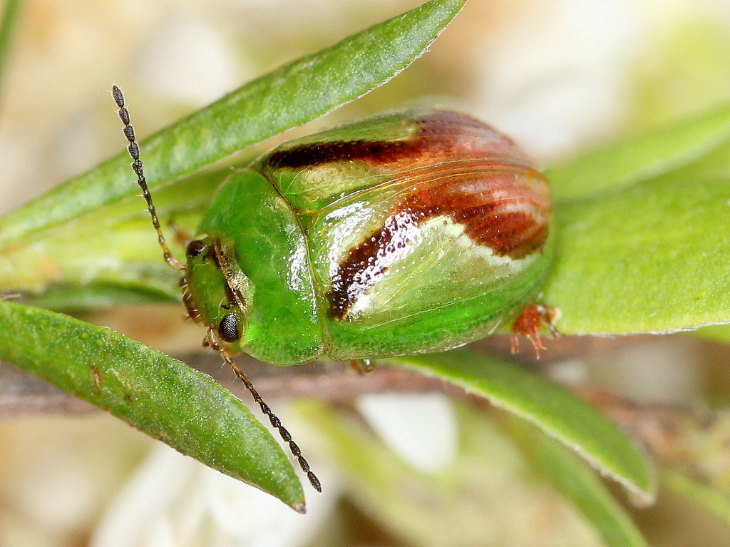 Paropsides oppisita